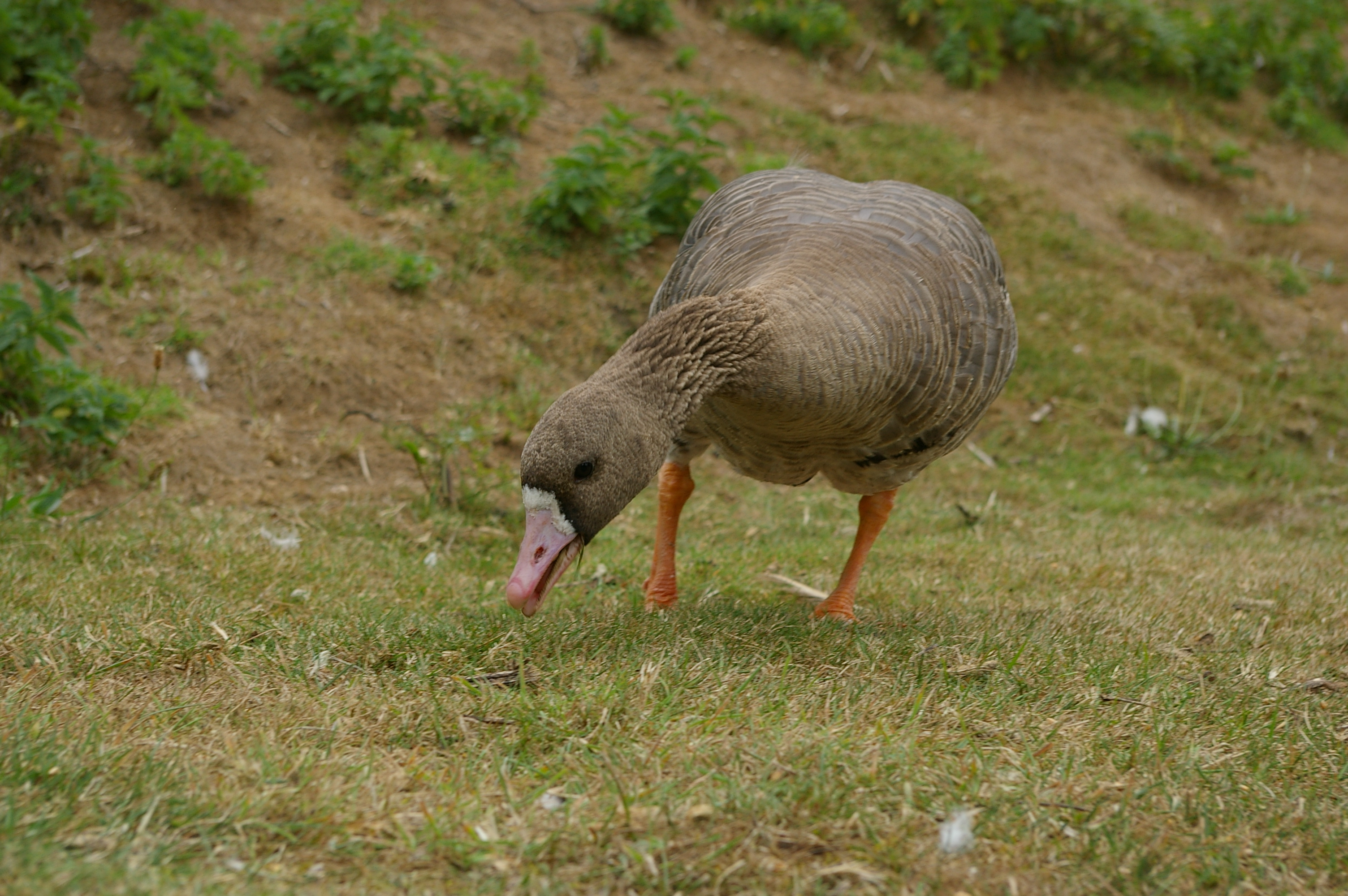 White-fronted Goose picking